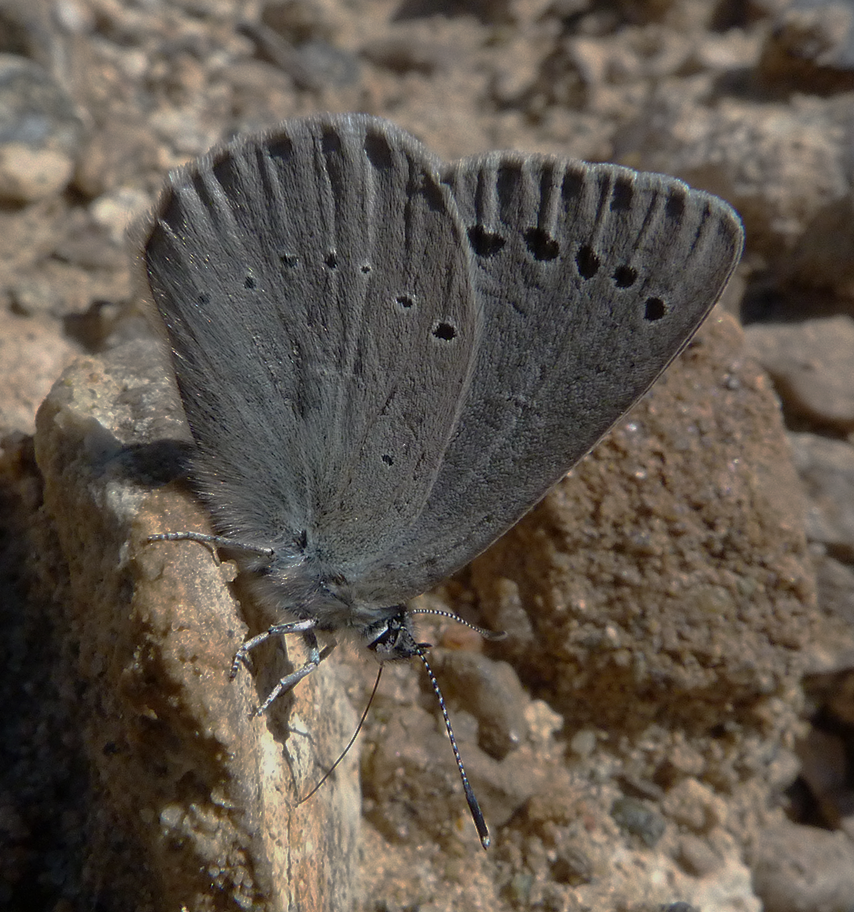 Near Passanant (Catalonia). June 2013.